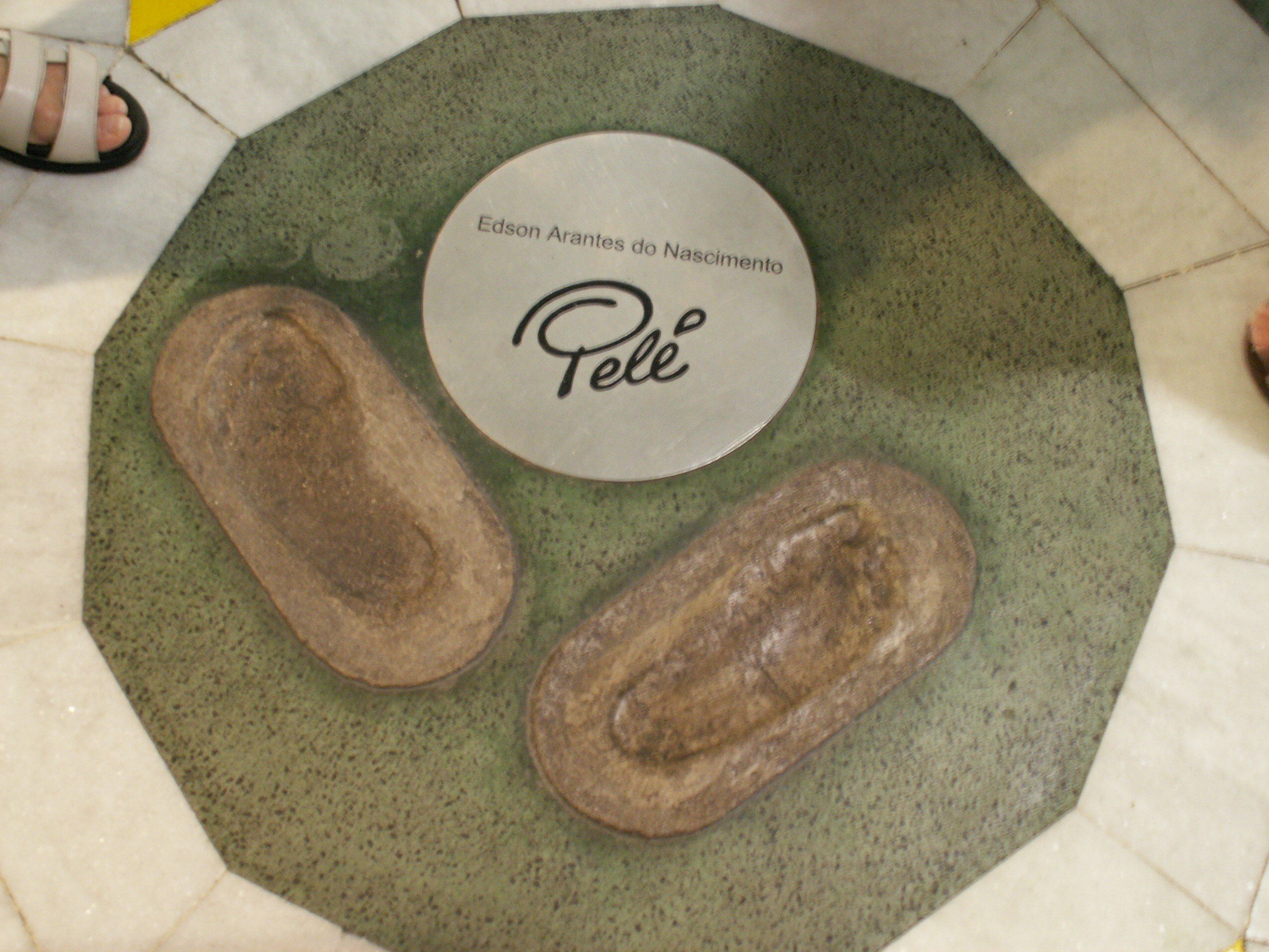 footprints of Pelé in Maracanã stadium